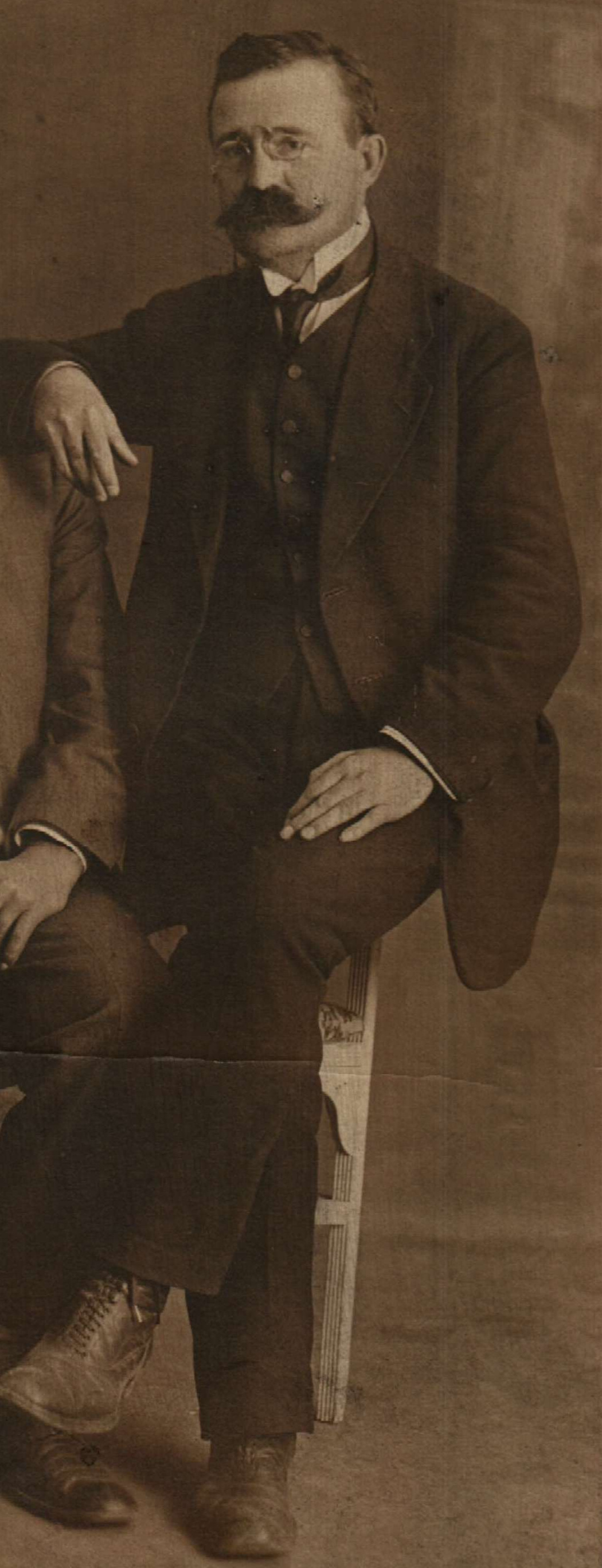 Bulgarian poet Lyubomir Bobevski (1878-1960).